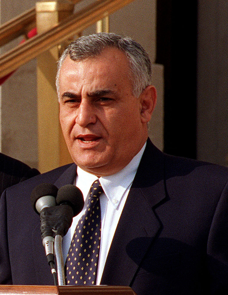 Israeli Defense Minister Yitzhak Mordechai at the Pentagon on April 3, 1997.